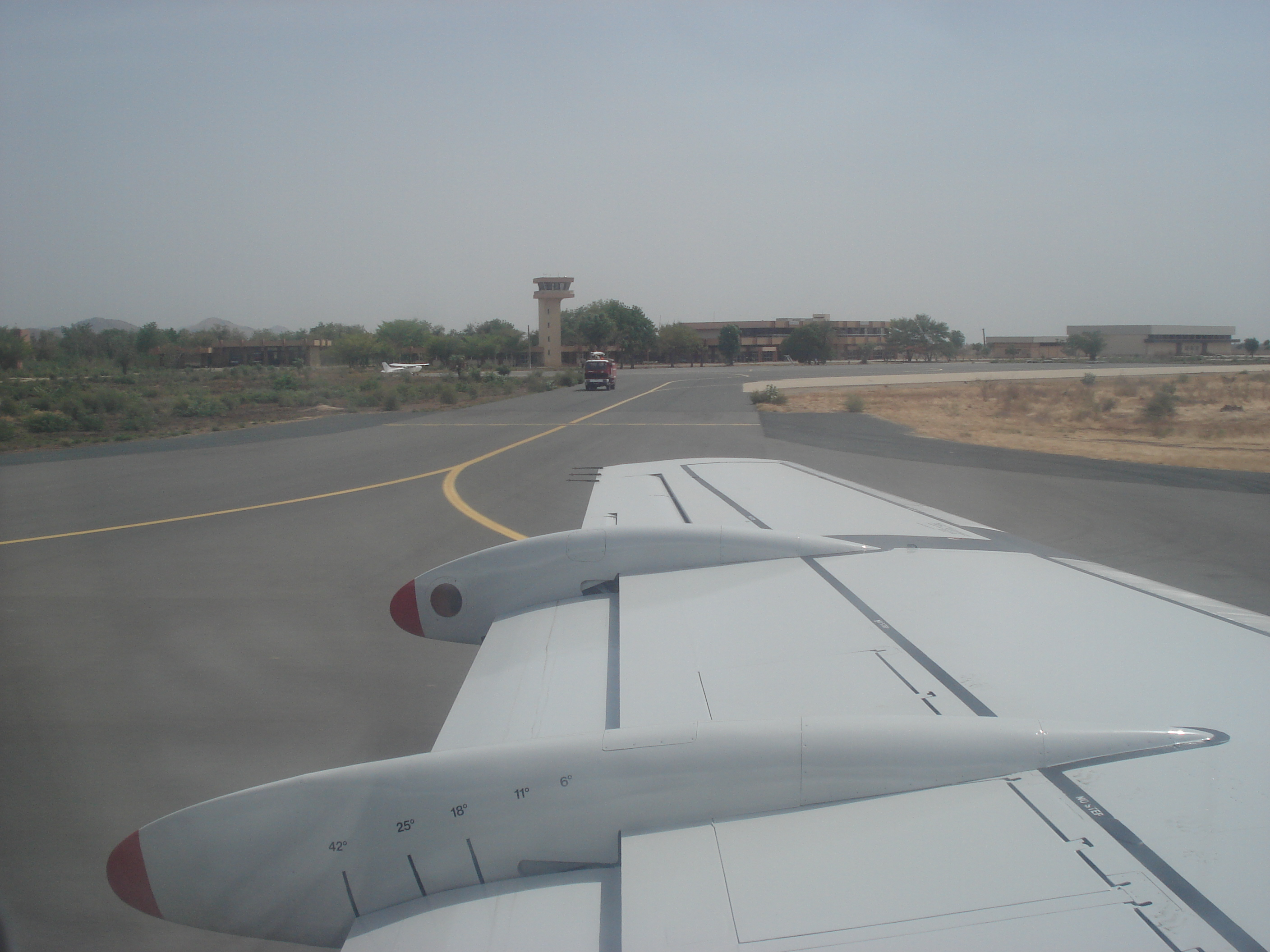 Aéroport International Airport